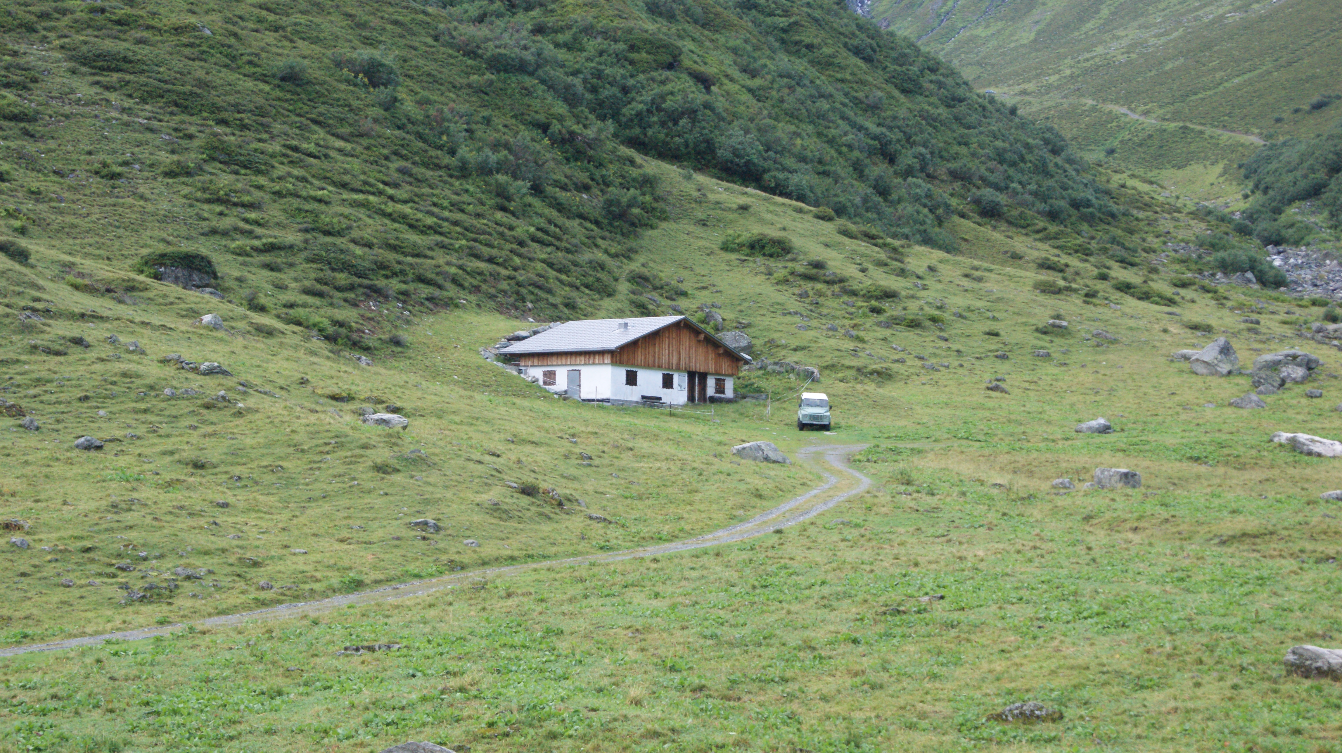 Upper Valzifenz Alpe in Valzifenz valley next to Via Valtellina in Gargellen, Vorarlberg, Austria.